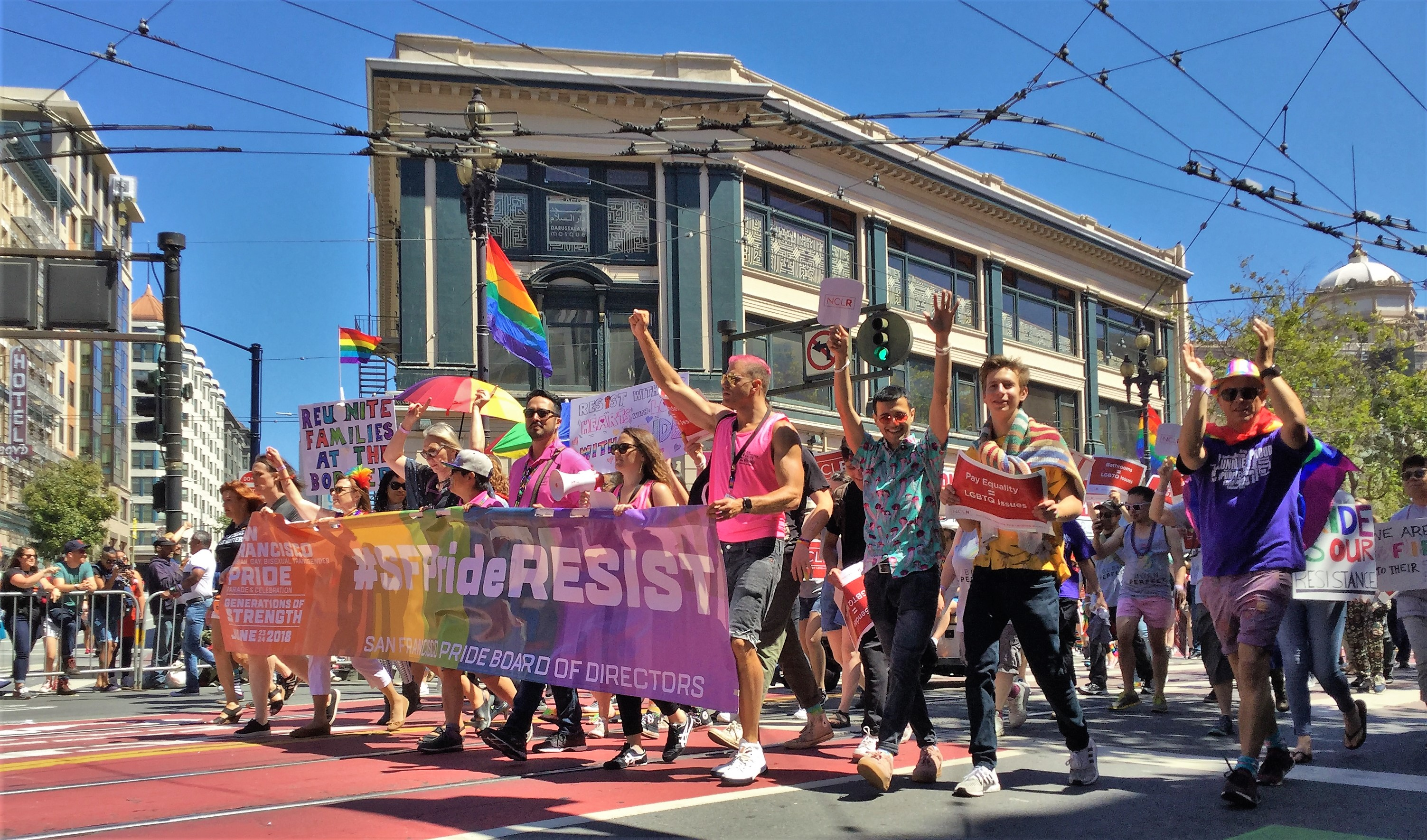 2018 San Francisco Gay Pride Parade down Market Street